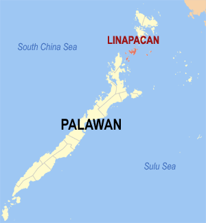 Map of Palawan showing the location of Linapacan